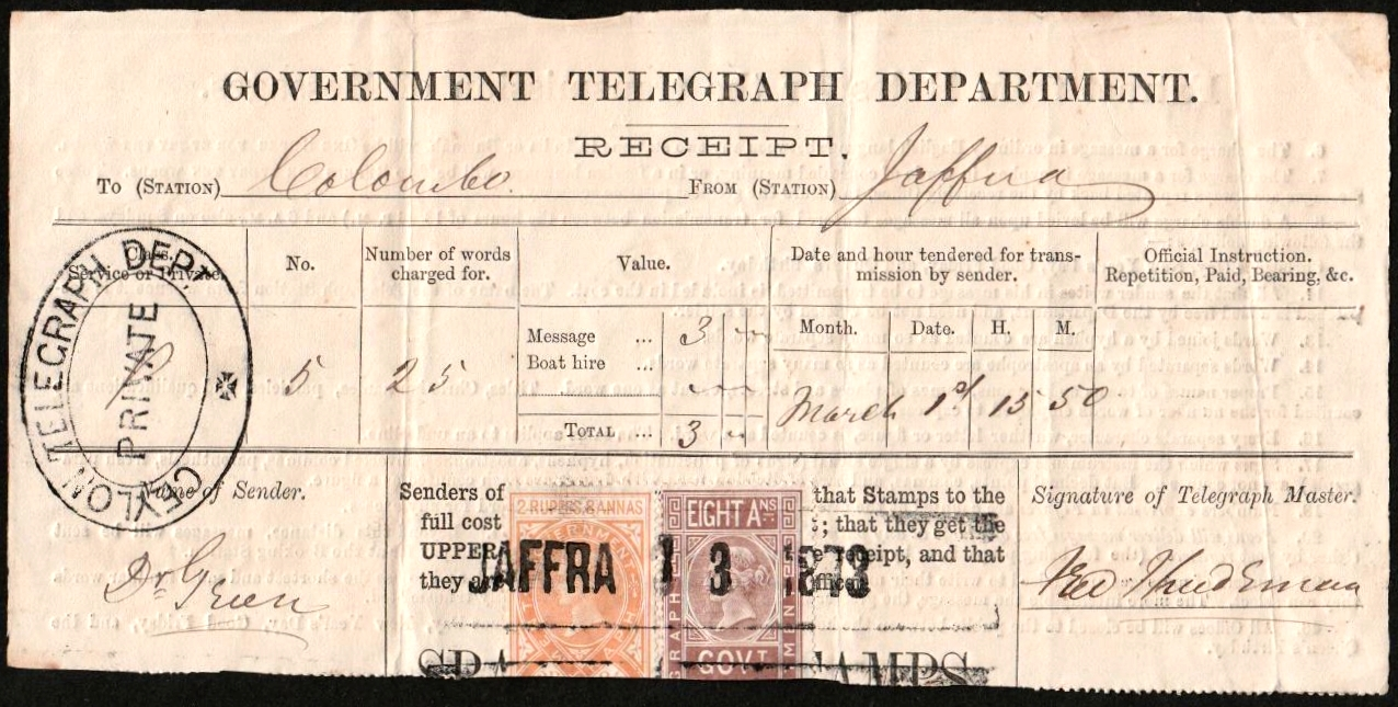 Ceylon telegraph receipt Jaffra to Colombo with half telegraph stamps.